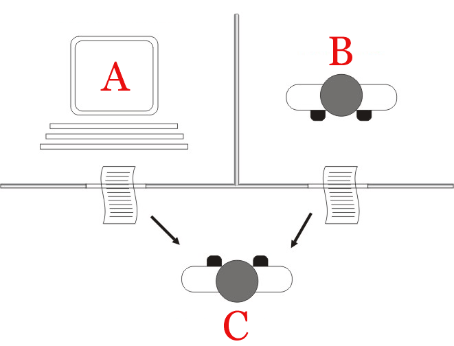 Diagram of the Turing test. This file was derived from Test de Turing.jpg